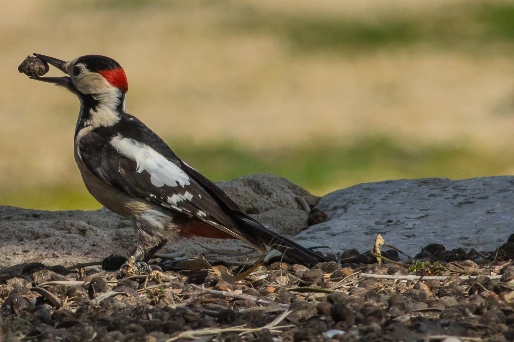 Dendrocopos syriacus, Ashkelon National Park, Israel.